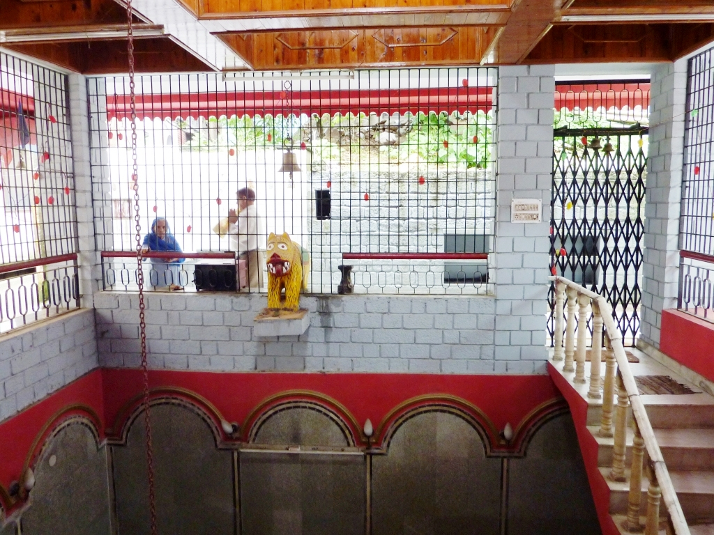 I took this photo while visiting Mandi earlier this year